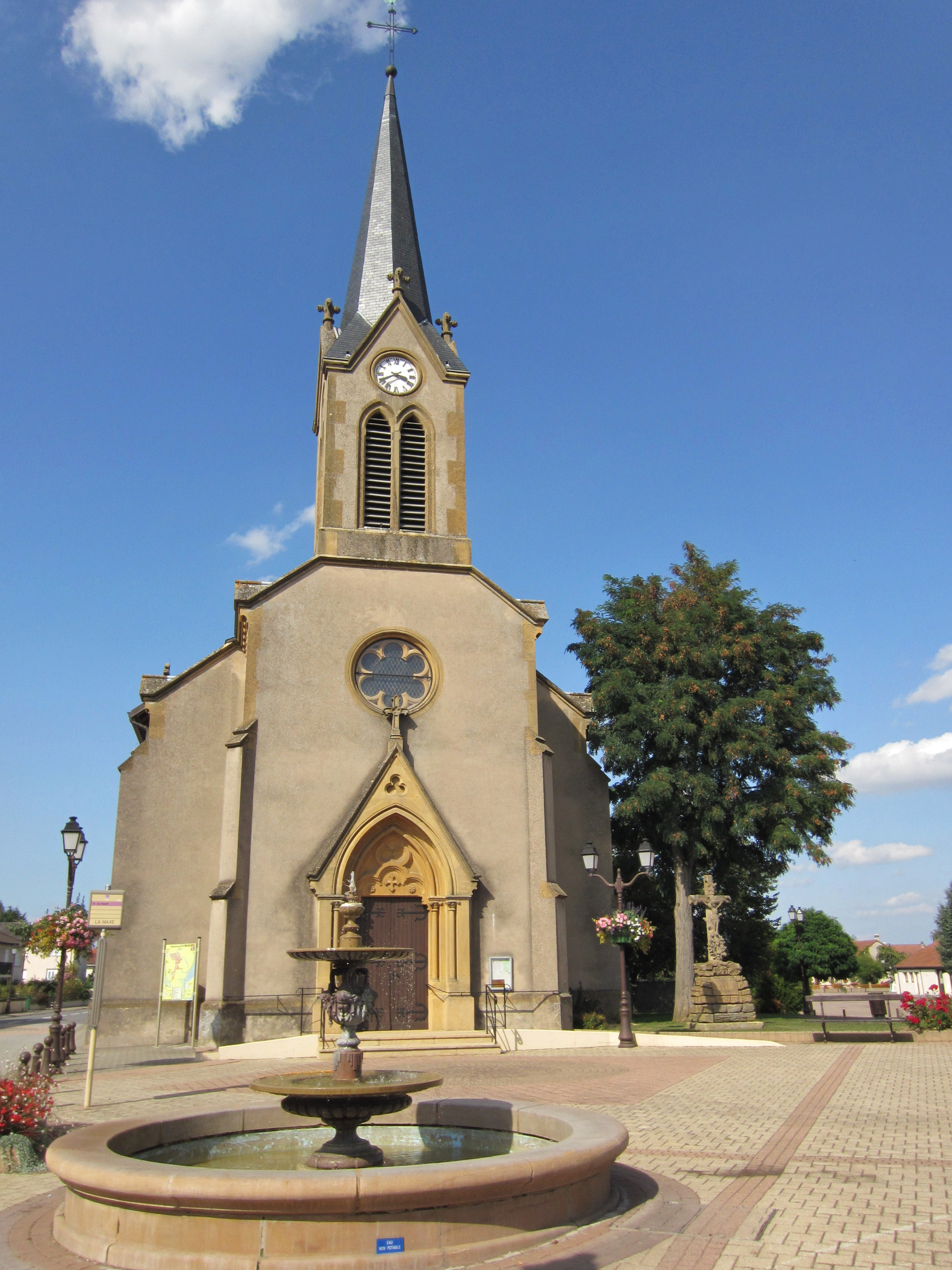 Description eglise La Maxe Date3 September 2011Sourcemon appareil photoAuthorAimelaimePermission(Reusing this file) eglise La Maxe